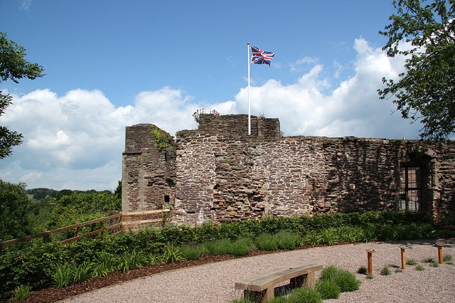 Monmouth Castle Ruins of the 12th century castle at Monmouth